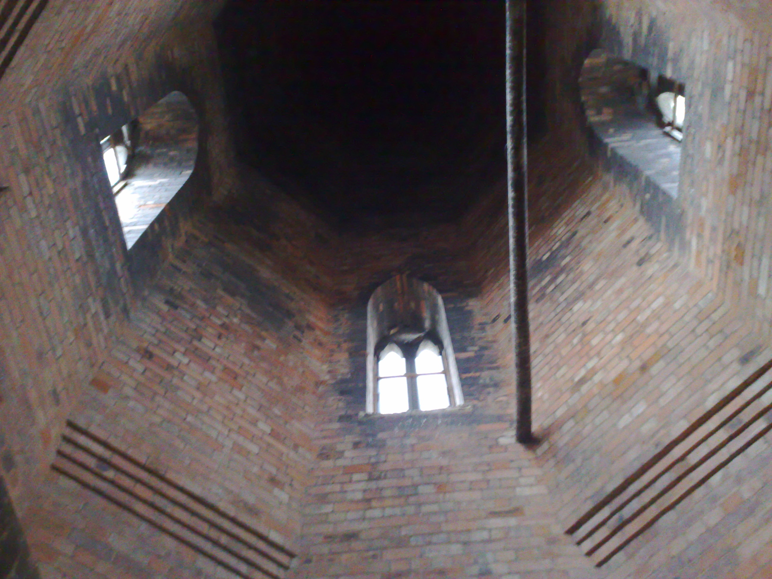 View up the inside of the spire of St Paul's parish church, Daybrook, Nottingham, England